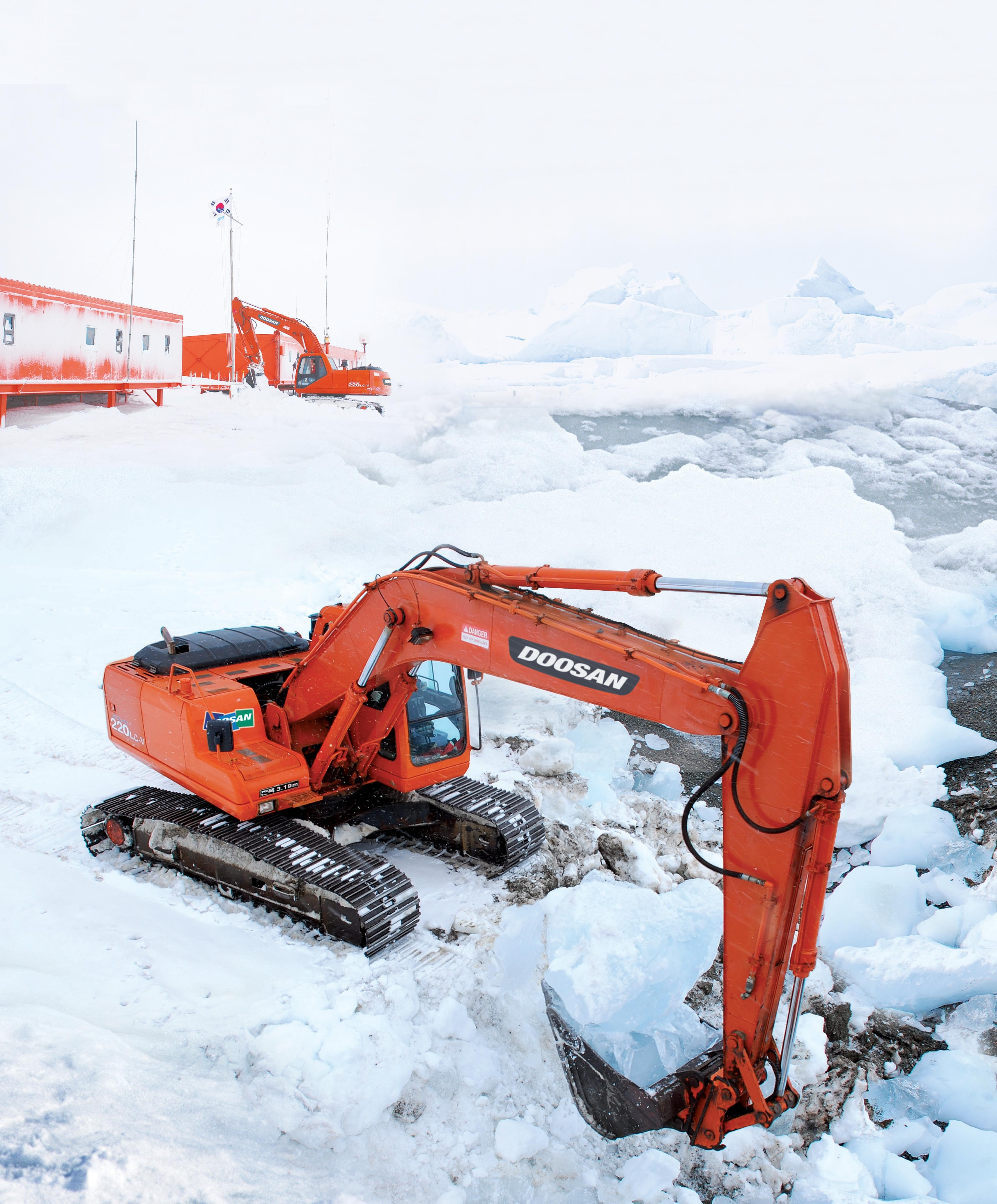 Doocan Excavator